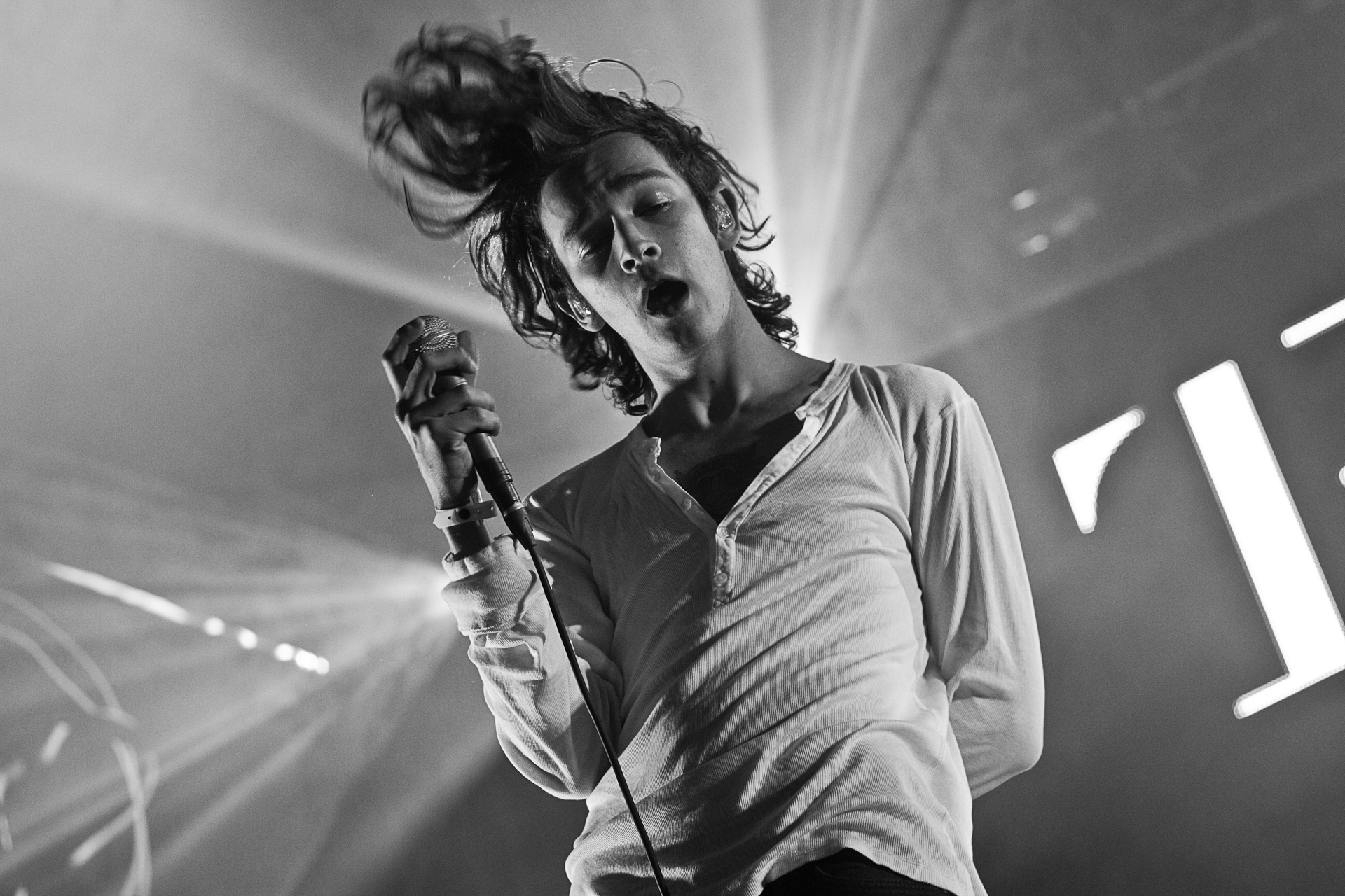 Matthew Healy of The 1975 at Southside Festival 2014 in Neuhausen ob Eck